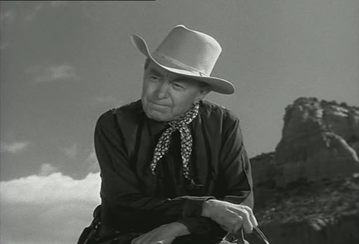 Harry Carey leaning on his horse in the film Angel and the Badman (1947).